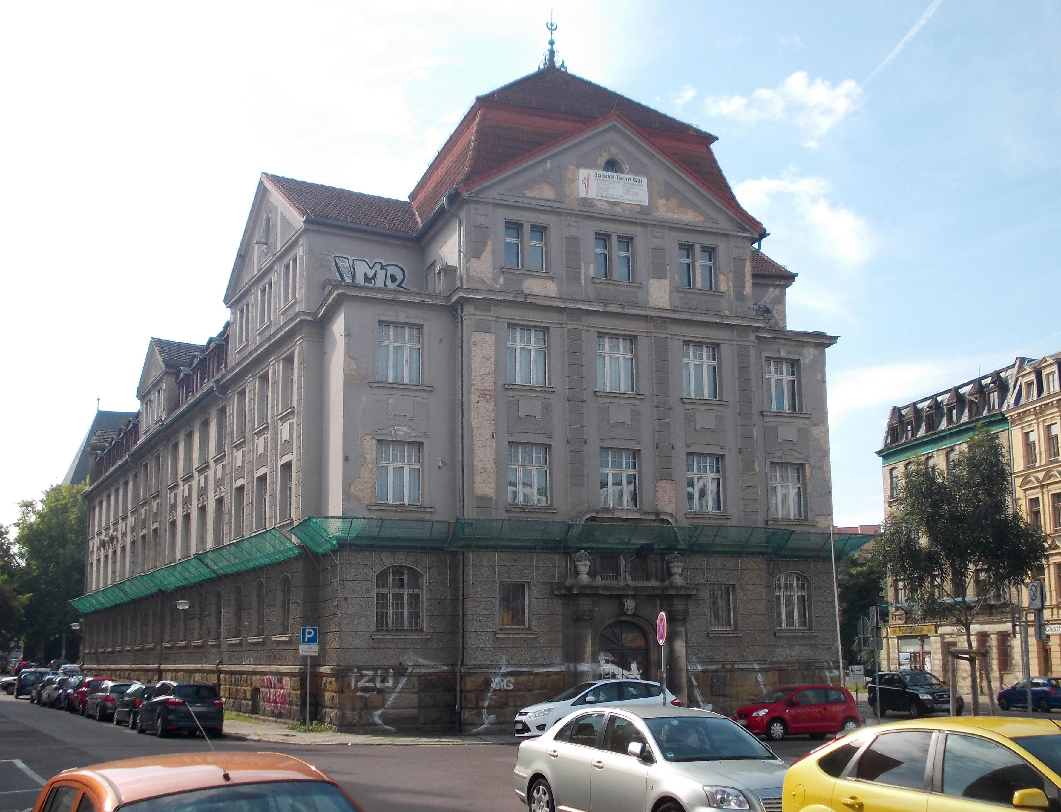 Former police headquarters in Halle/Saale (Saxony-Anhalt)